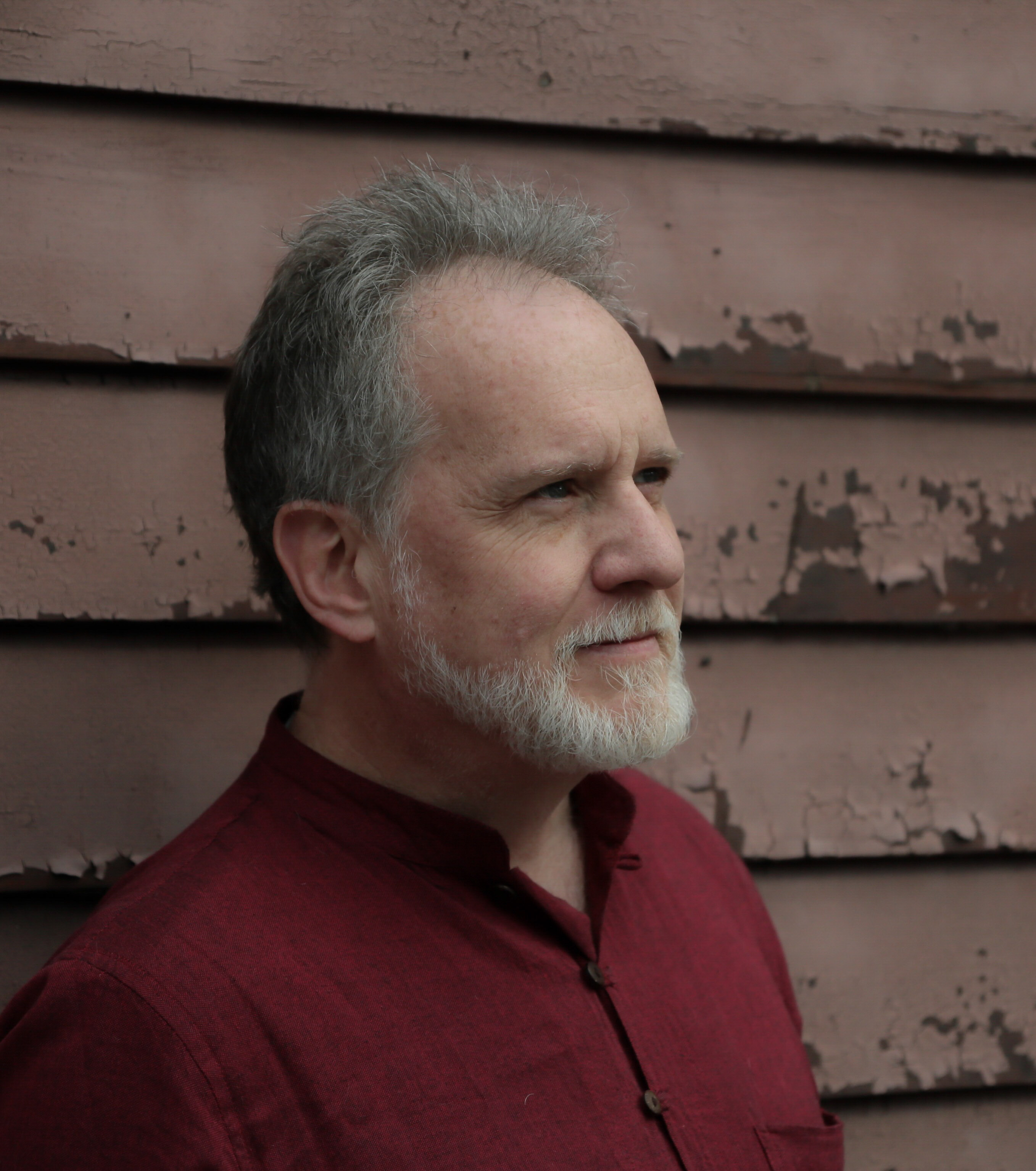 Daniel Tobin, Poet